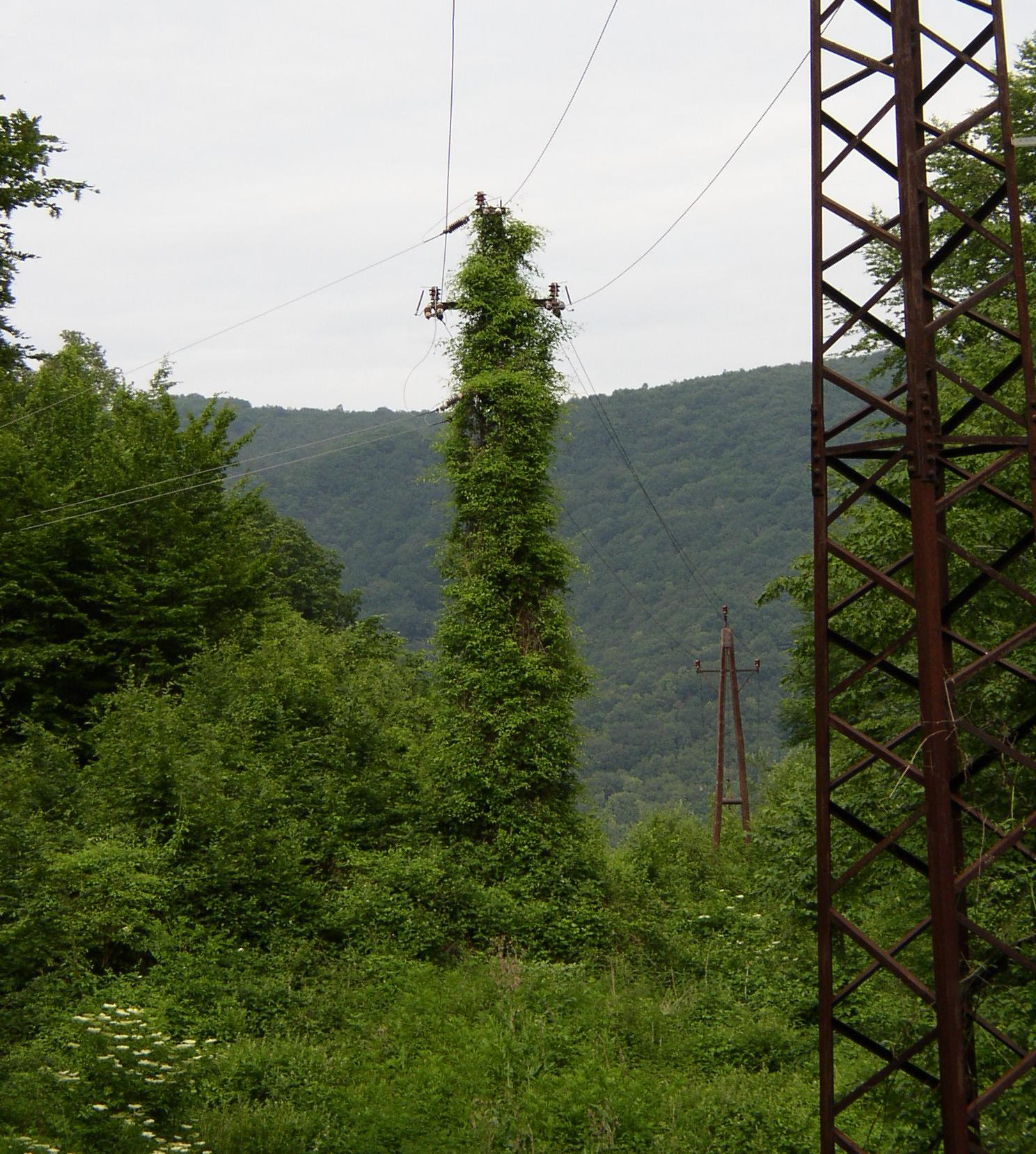 Electrical pole covered with natural vegetation in Hungary, Dobogókő.